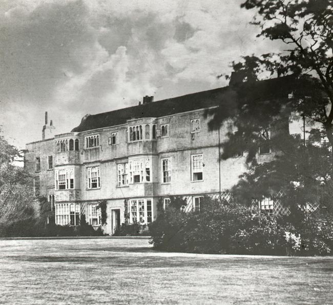 Old photo of May Place, Crayford